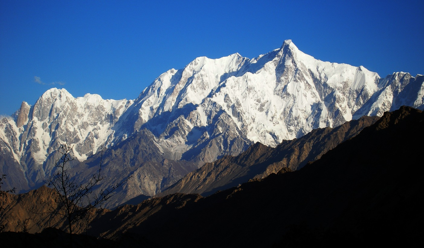 Ultar ridge from Nagar Valley: the highest peak is Ultar Sar (aka Ultar II), Bojohagur Duanasir is on its left. On the far left Hunza Peak and the distinctive rock needle of Bublimotin